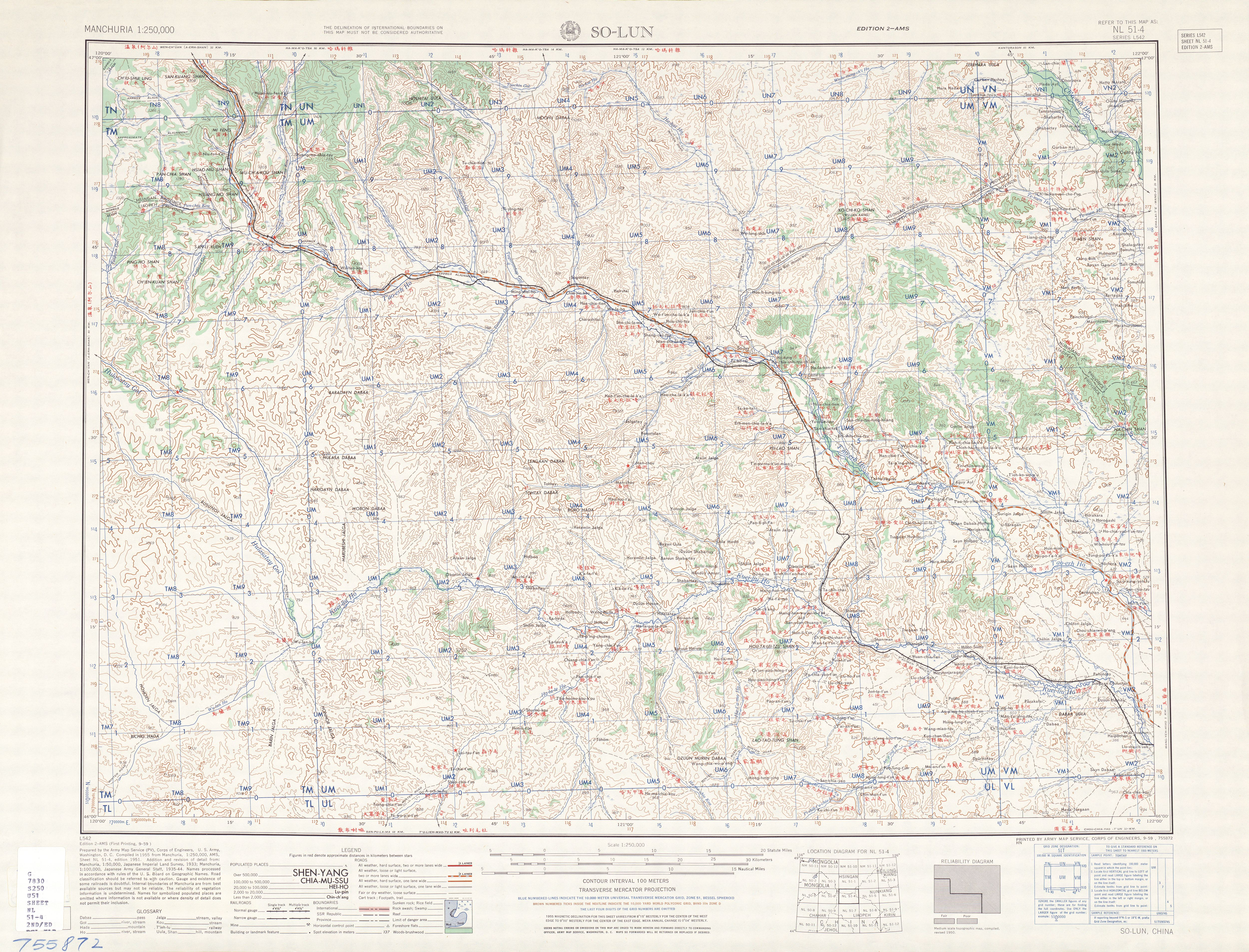 Manchuria AMS Topographic Maps